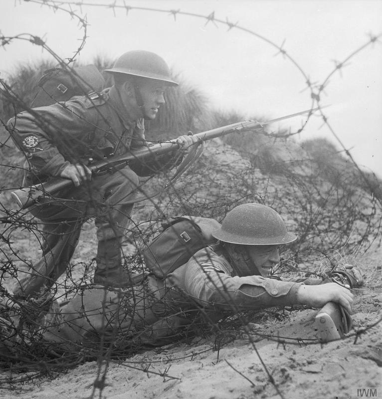 Troops crossing a barbed-wire obstacle at the Western Command weapon training school at Altcar in Lancashire, 13 November 1942.